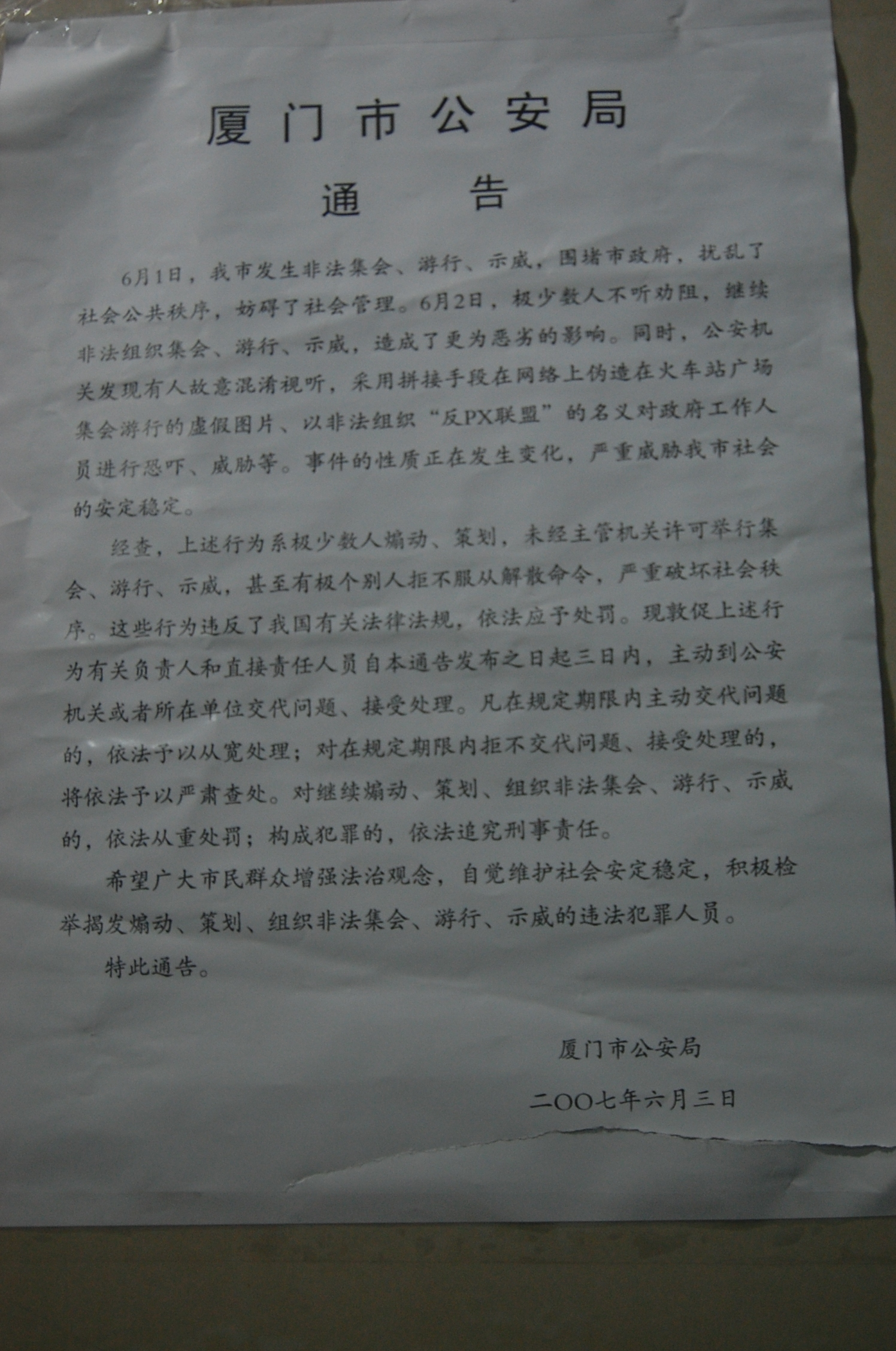 The announcement issued by Amoy government soon after the protest against the Amoy PX project